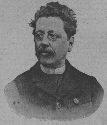 Josep Yxart i de Moragas, in La Veu de Catalunya magazine of 16.6.1895